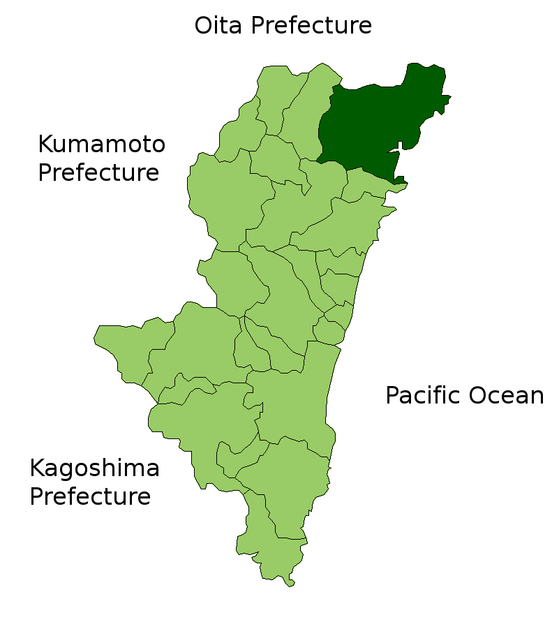 Location Map of Nobeoka in Miyazaki Prefecture, Japan